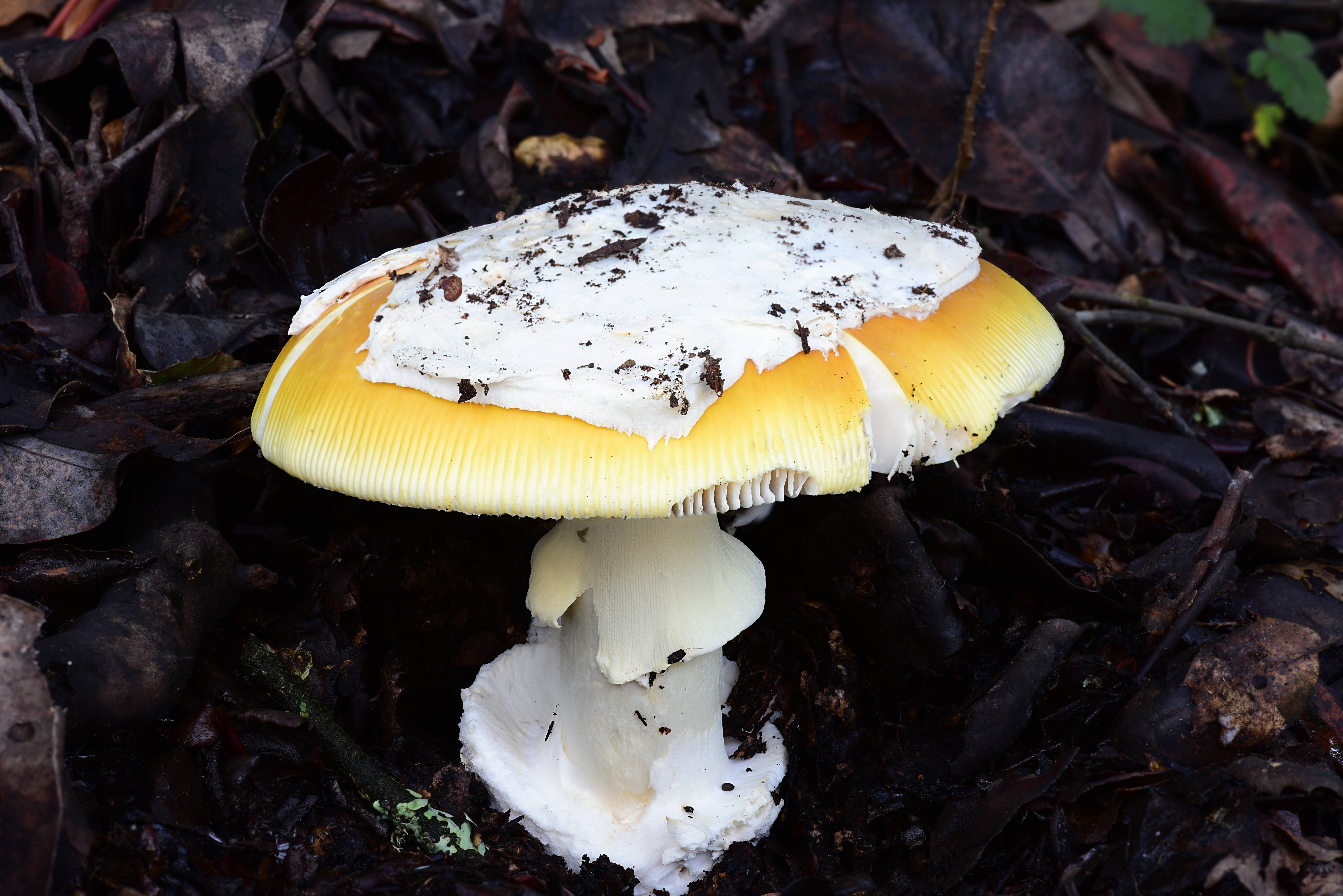 This is Amanita calyptroderma from Redwood Regional Park, Oakland.